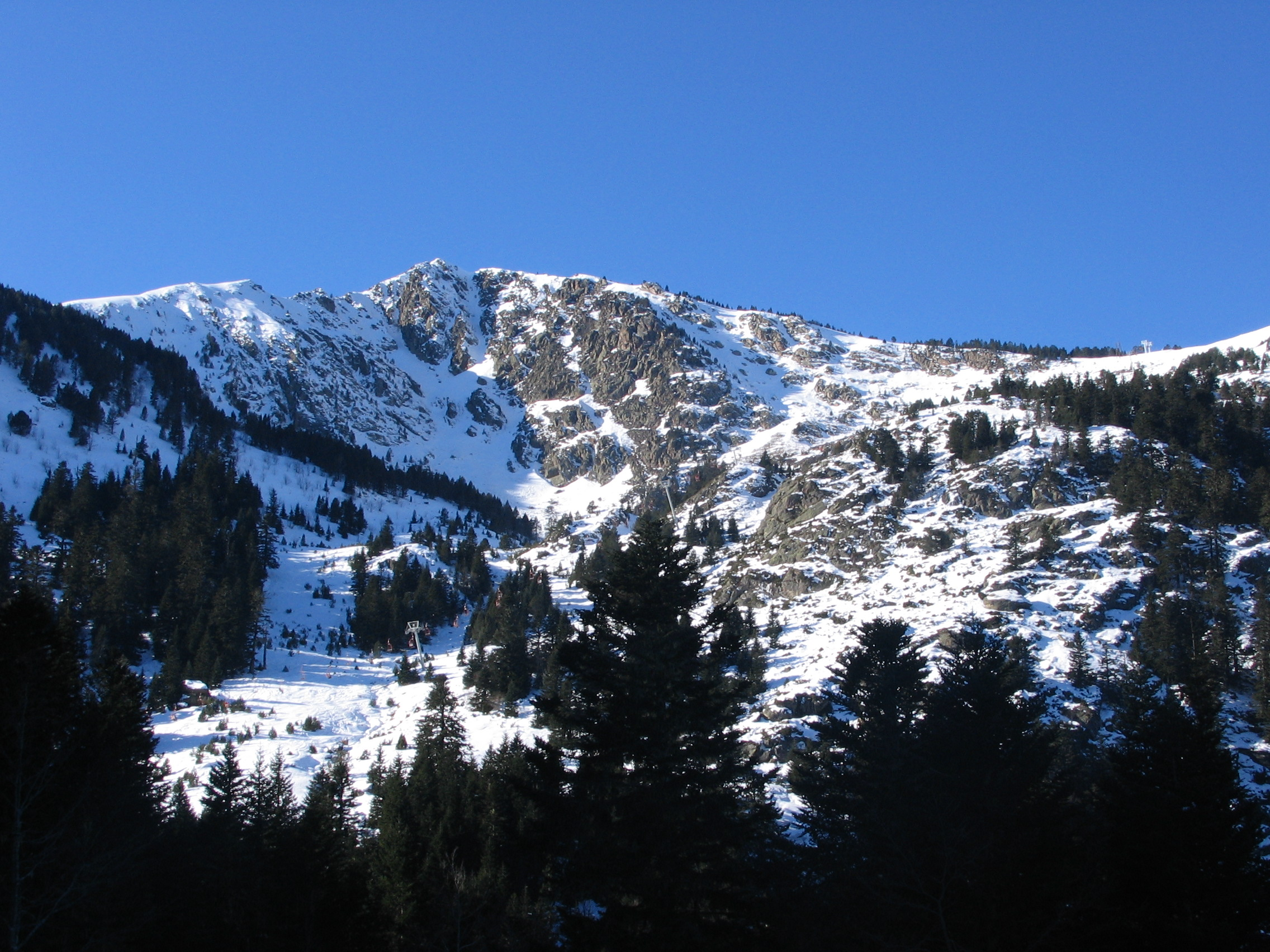 Ax 3 Domaines